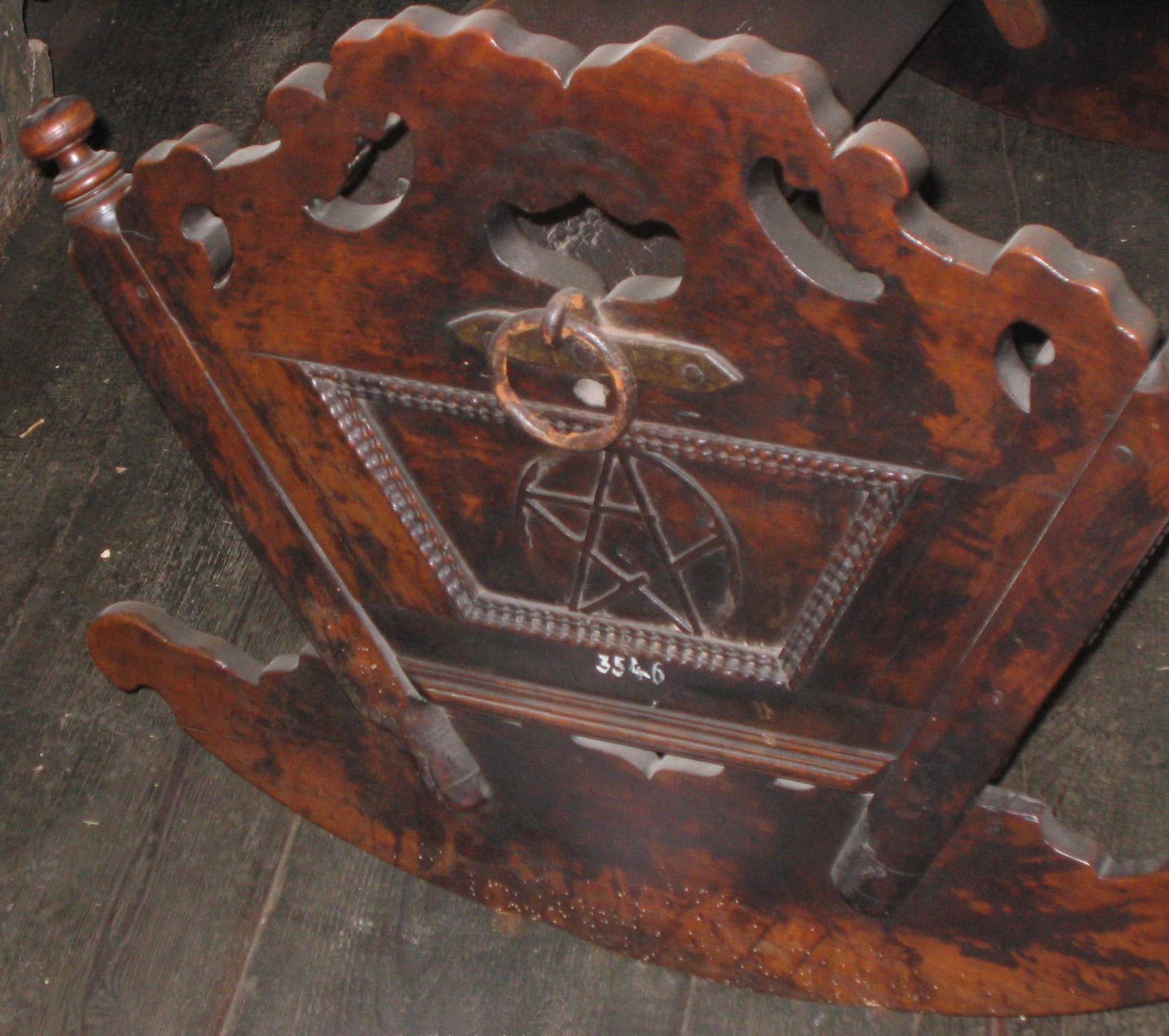 cradle with pentragram.